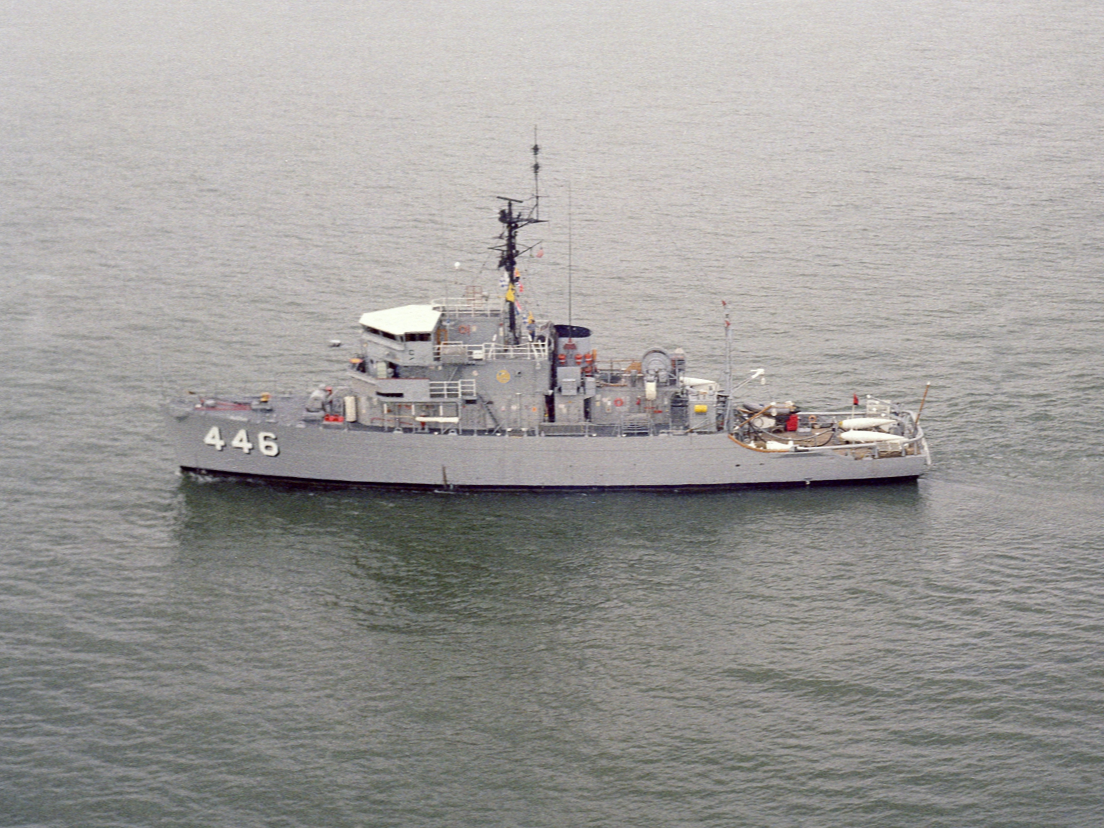 The U.S. Navy ocean minesweeper USS Fortify (MSO-446) underway in the Atlantic Ocean, in 1981.